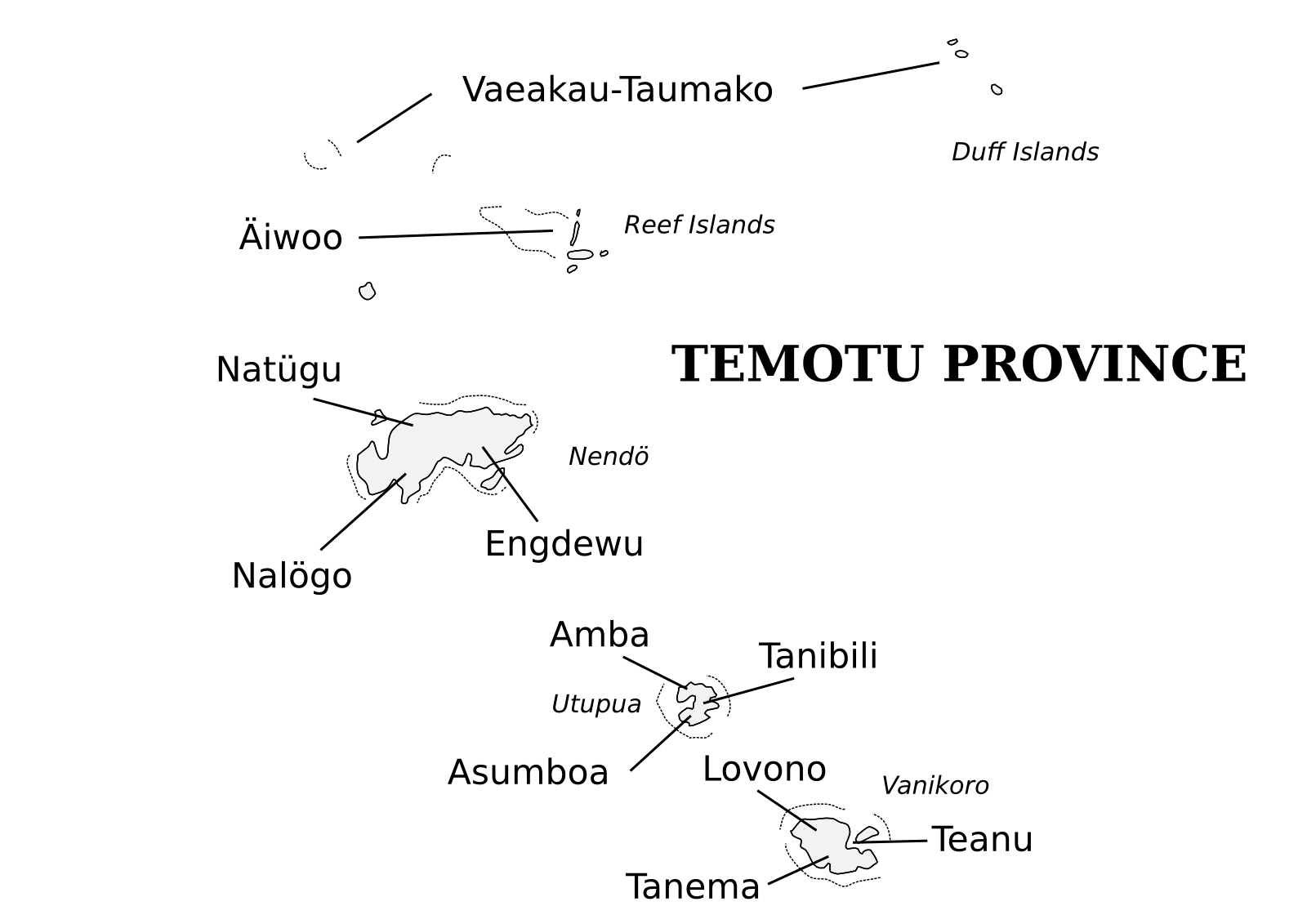 Map showing the Oceanic and Polynesian languages of Temotu. Data from: Boerger, Brenda H. 2007. "Natqgu literacy: Capturing three domains for written language use." Language Documentation and Conservation. 1(2). 126–153; François, Alexandre. 2009. "The languages of Vanikoro: Three lexicons and one grammar". In Bethwyn Evans, Discovering history through language: Papers in honour of Malcolm Ross, Pacific Linguistics 605. Canberra: Australian National University. 103–126; Map of the Solomon Islands at Ethnologue (2015).